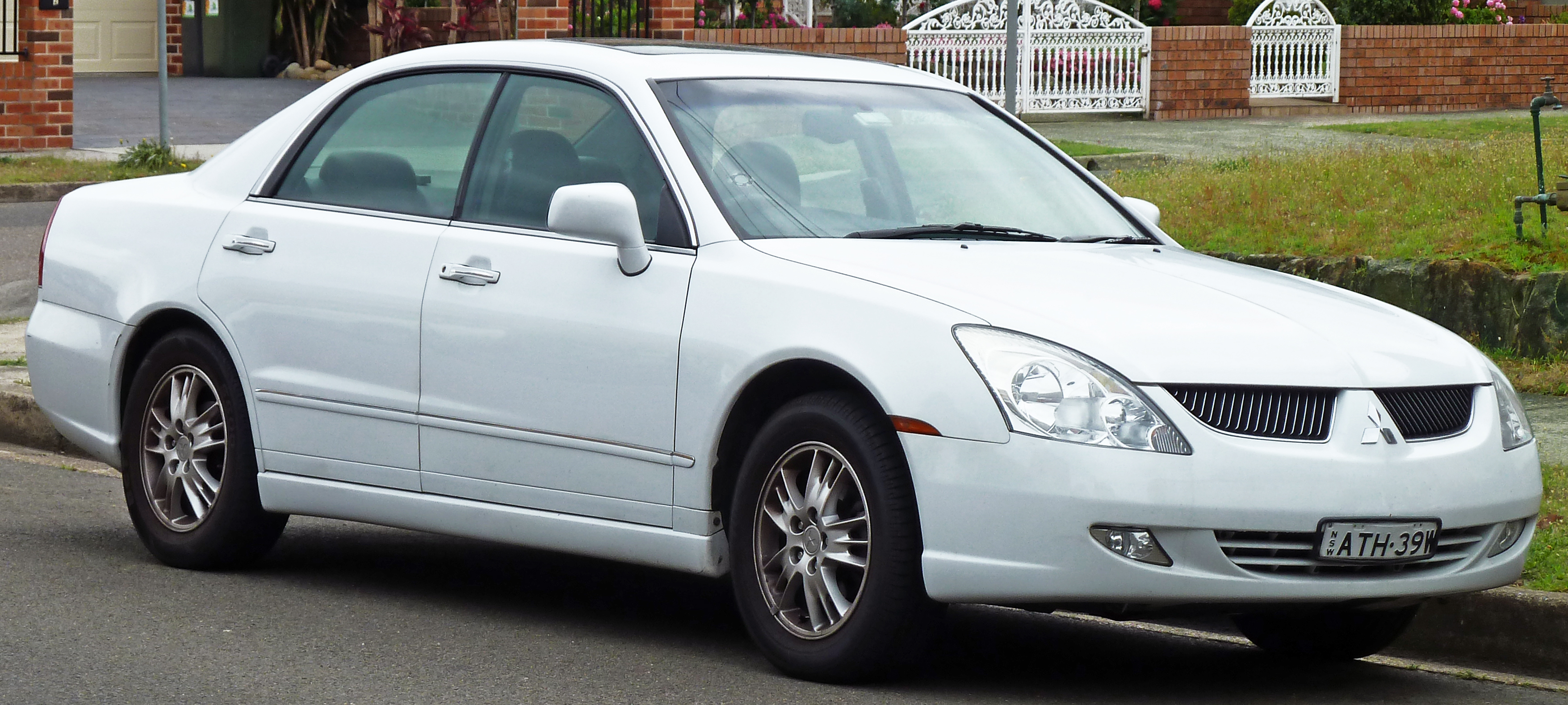 2003 Mitsubishi Verada (KL) Xi sedan. Photographed in Dolls Point, New South Wales, Australia.